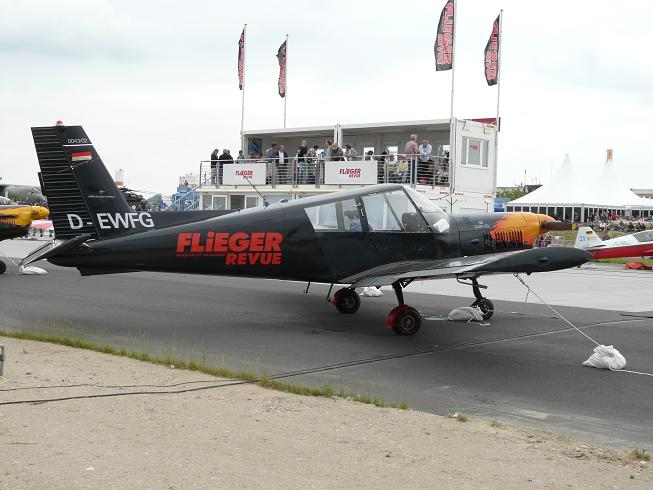 Zlín Z-43 (Aircraft registration D-EWFG) at ILA 2010 (Berlin-Schönefeld)